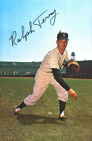 Professional baseball player Ralph Terry